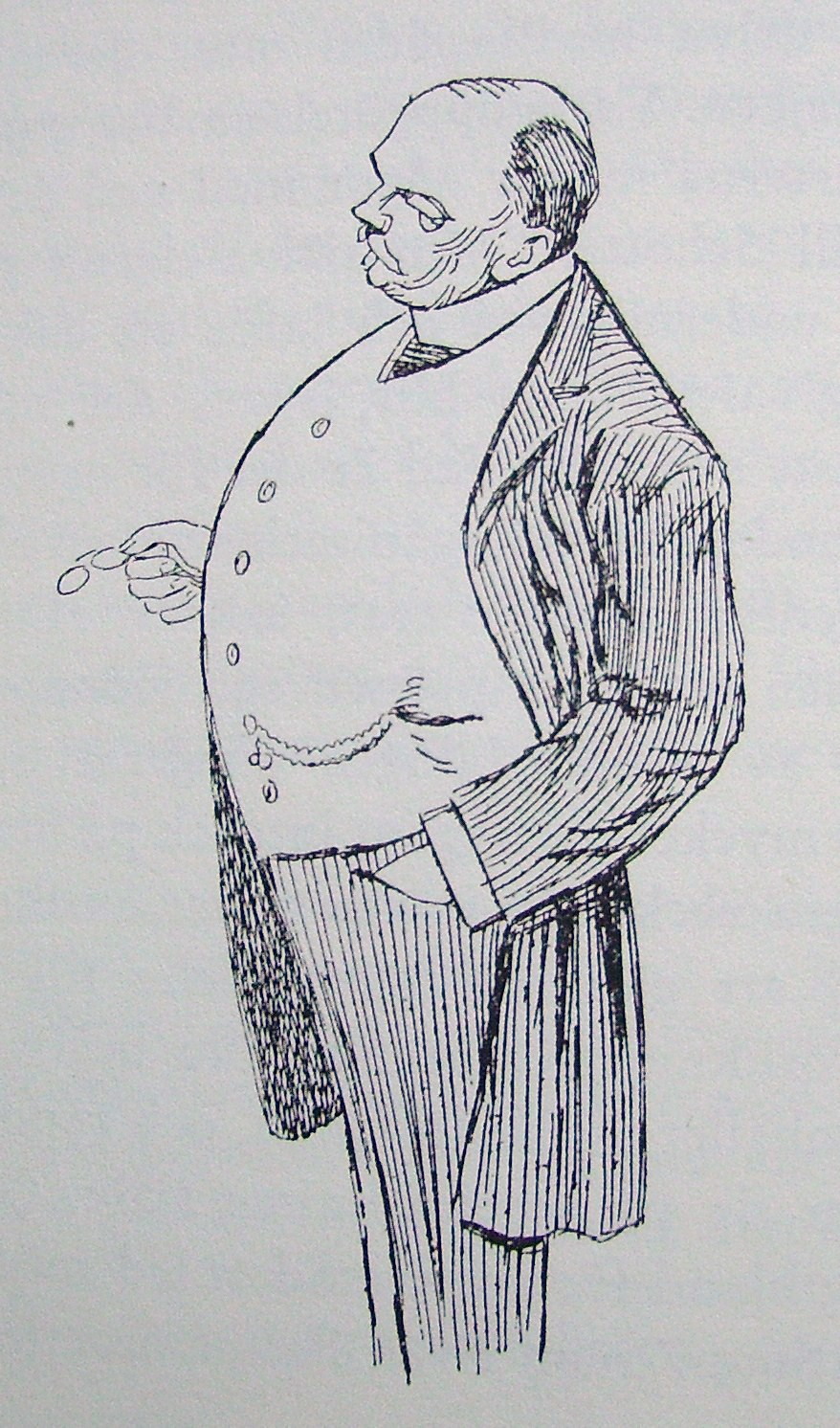 Picture of drawing of Sven Palme, Swedish politician